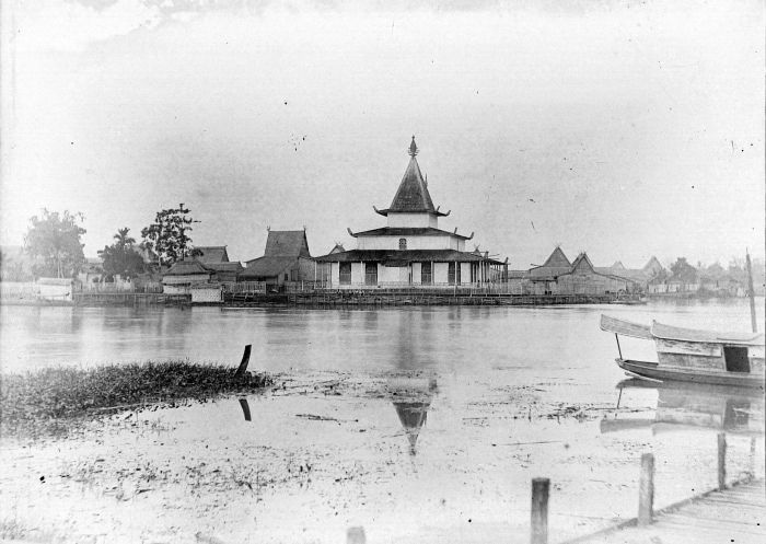 River view with mosque, Negara, Hulu Sungai Selatan Regency, South Kalimantan Province